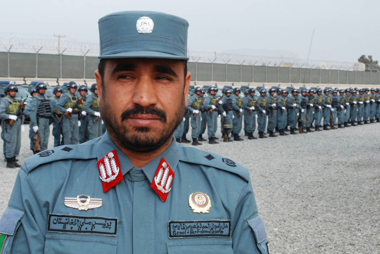 Brig. Gen. Ahmed Fahim Qayem, commander of the Central Unit, Police Zone 101, sets an example of unit ownership that few in Afghanistan have seen the likes. (Photo by Petty Officer 2nd Class John R. Fischer)